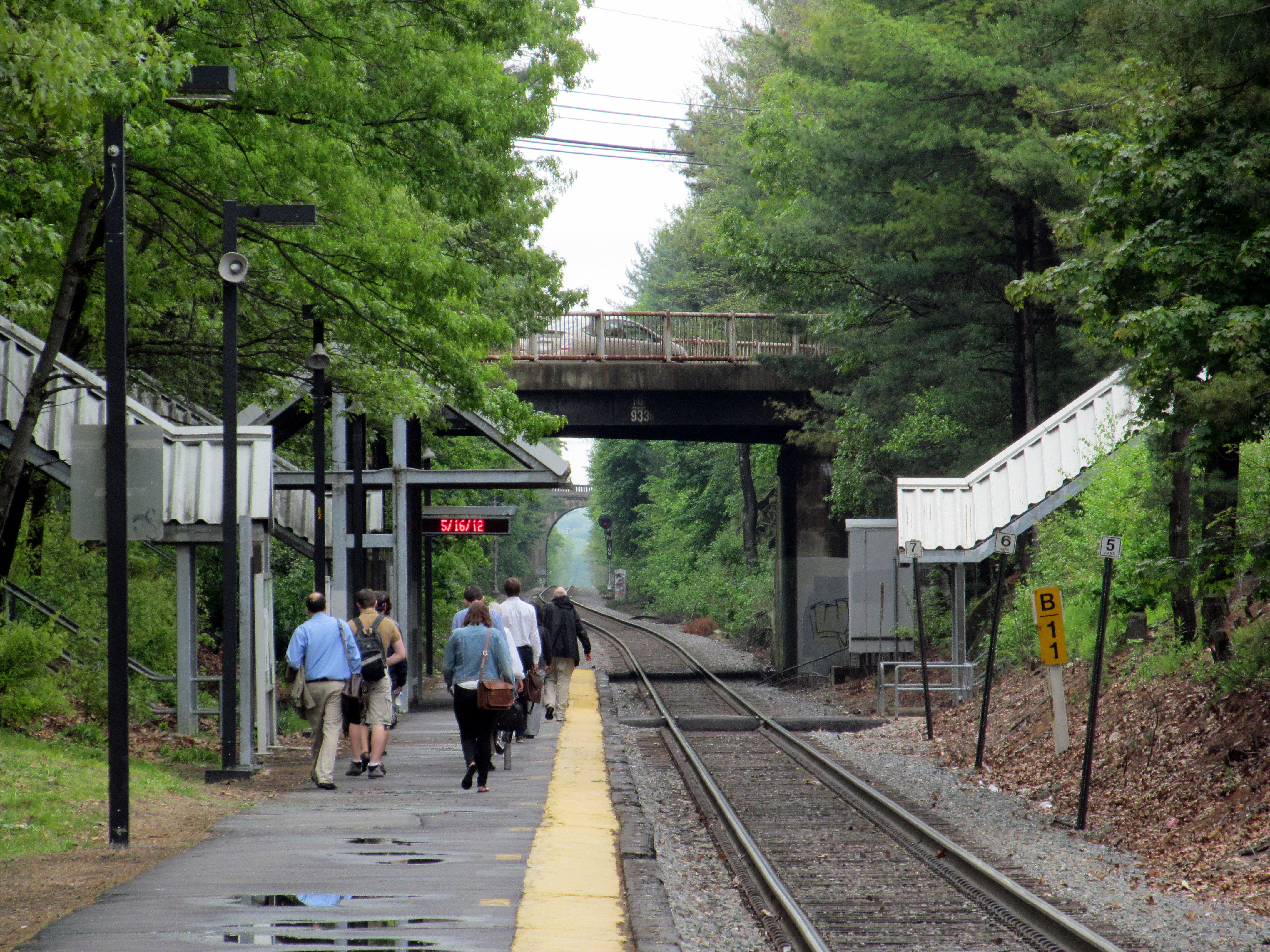 Platform at Hersey station, looking inbound. The Greendale Avenue bridge is visible in the distance.